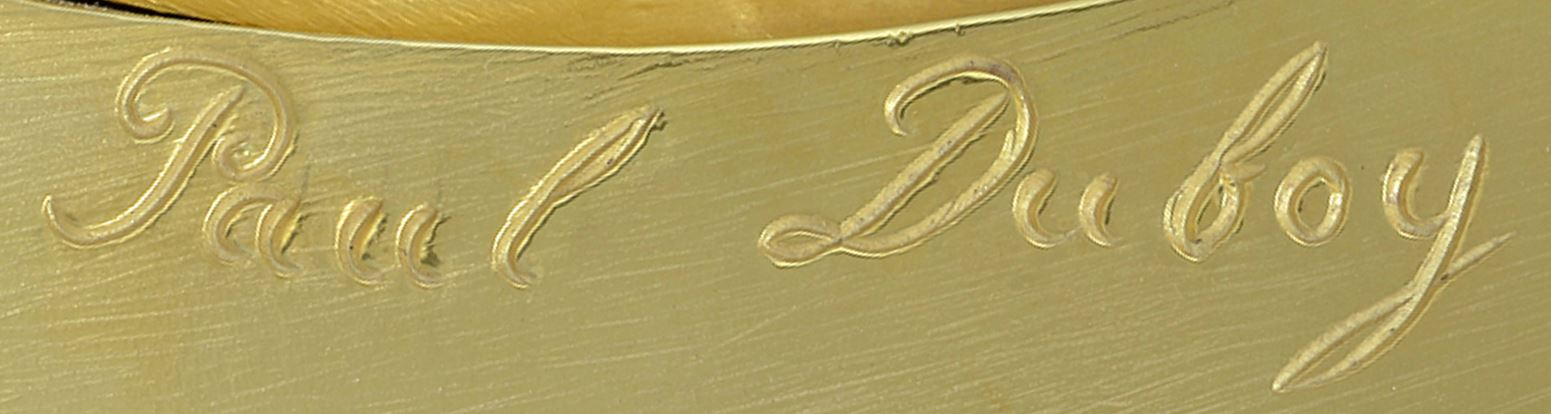 Signature of French sculptor Paul Duboy (1830—1886)